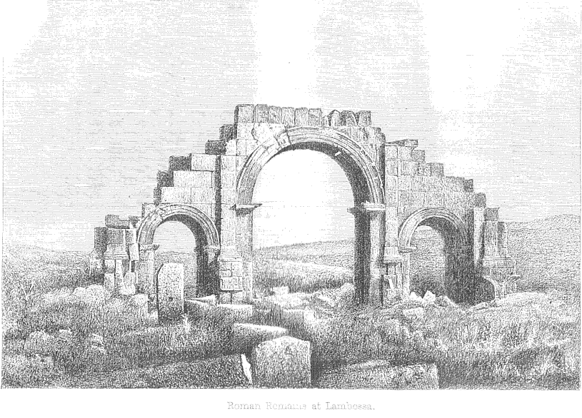 Ancient Roman triumphal Arch of Septimius Severus — Lambaesis, Algeria. An etching of Lambaesis from Blakesley, Four Months in Algeria, 1859. (and thus about as far out of copyright as one can be...)